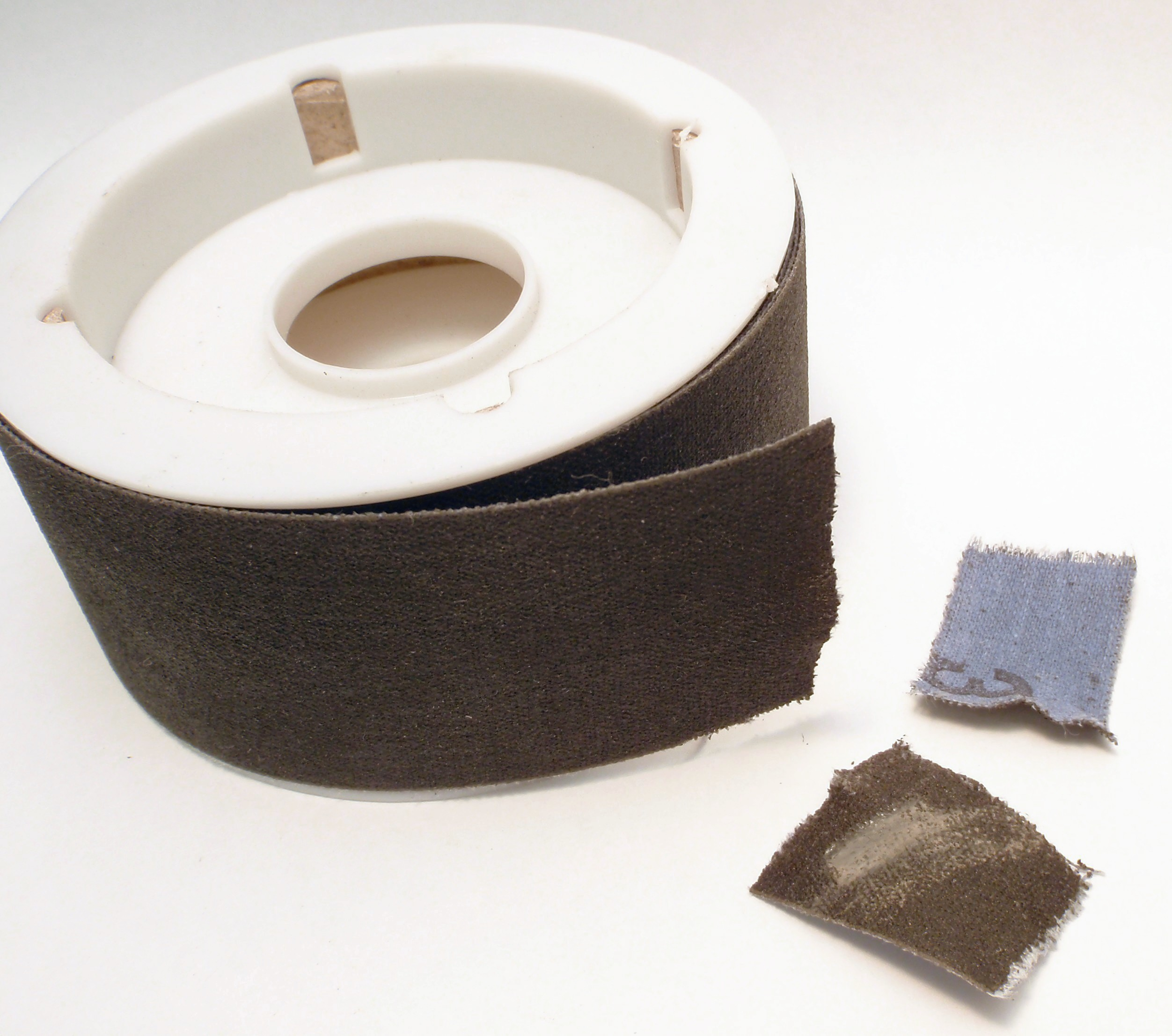 Full size image of 320 grain emery cloth